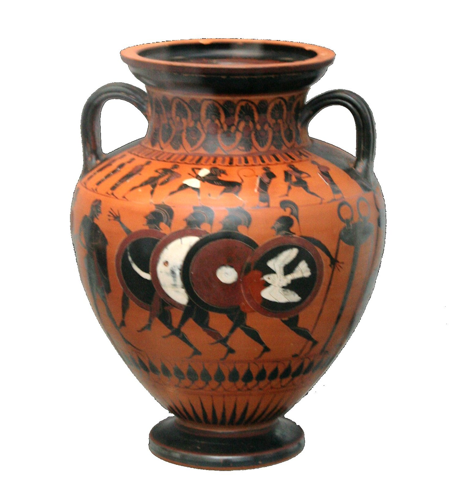 Hoplitodromos (armoured race); on the right some tripods as winning prizes. Side A of an Attic black-figure neck-amphora, ca. 550 BC. From Vulci.